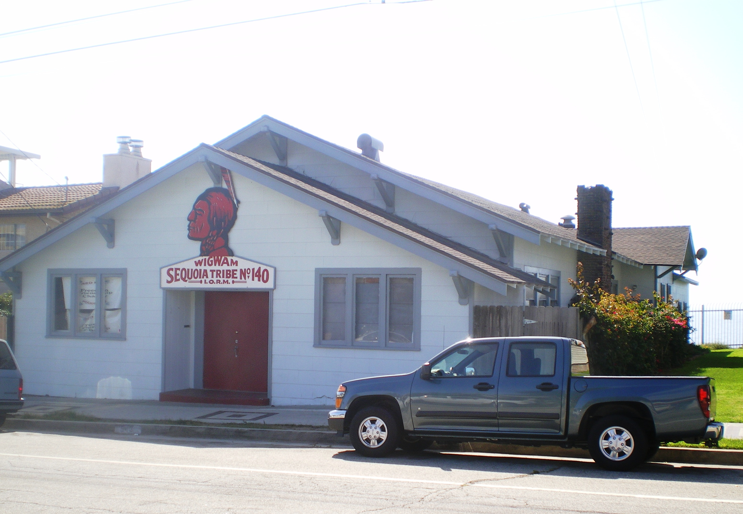 Redmen’s Hall, 543 Shepard St., San Pedro, Los Angeles, California. Craftsman-style lodge was originally a library when built in 1915; it later became the local chapter of the Improved Order of Red Men. Los Angeles Historic-Cultural Monument.